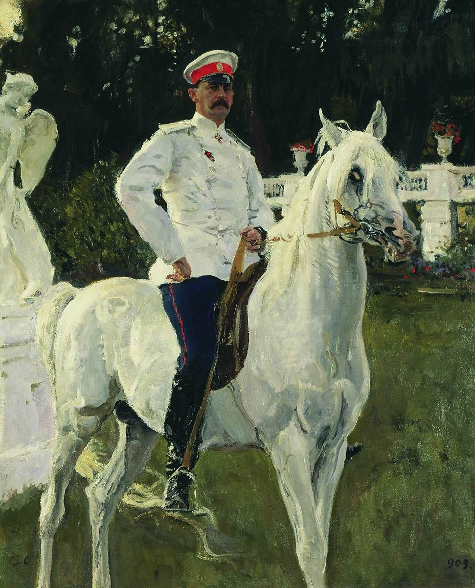 Portrait of Prince Felix Yusupov, Count Sumarokov-Elstone